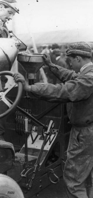 Ferenc Szisz's Renault Type AK having its radiator refilled during 1906 French Grand Prix